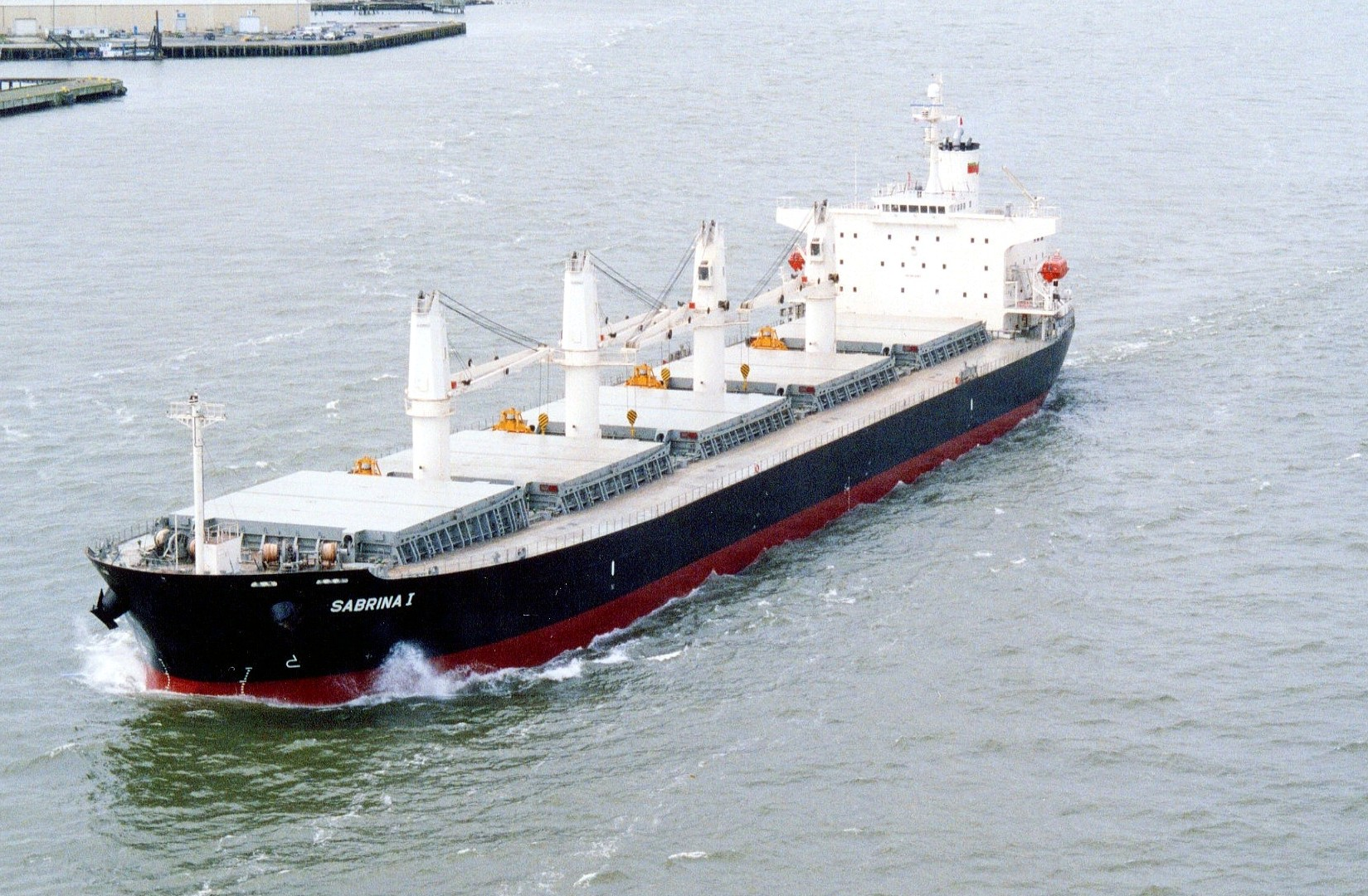 The Sabrina I photographed from atop the Astoria-Megler Bridge. A typical modern handymax bulk carrier with 5 holds, 5 hatches and 4 cranes, Sabrina I is owned by Portline of Portugal and was built at the Balamban (Cebu), Philippines shipyard of Japanese shipbuilder Tsuneishi Heavy Industries. The ship was delivered in January 2005. Length over all (LOA): 190.00m beam: 32.26m (panamax) cranes: 4 x 30 metric tons SWL cargo hold capacity: about 67,500 cubic metres